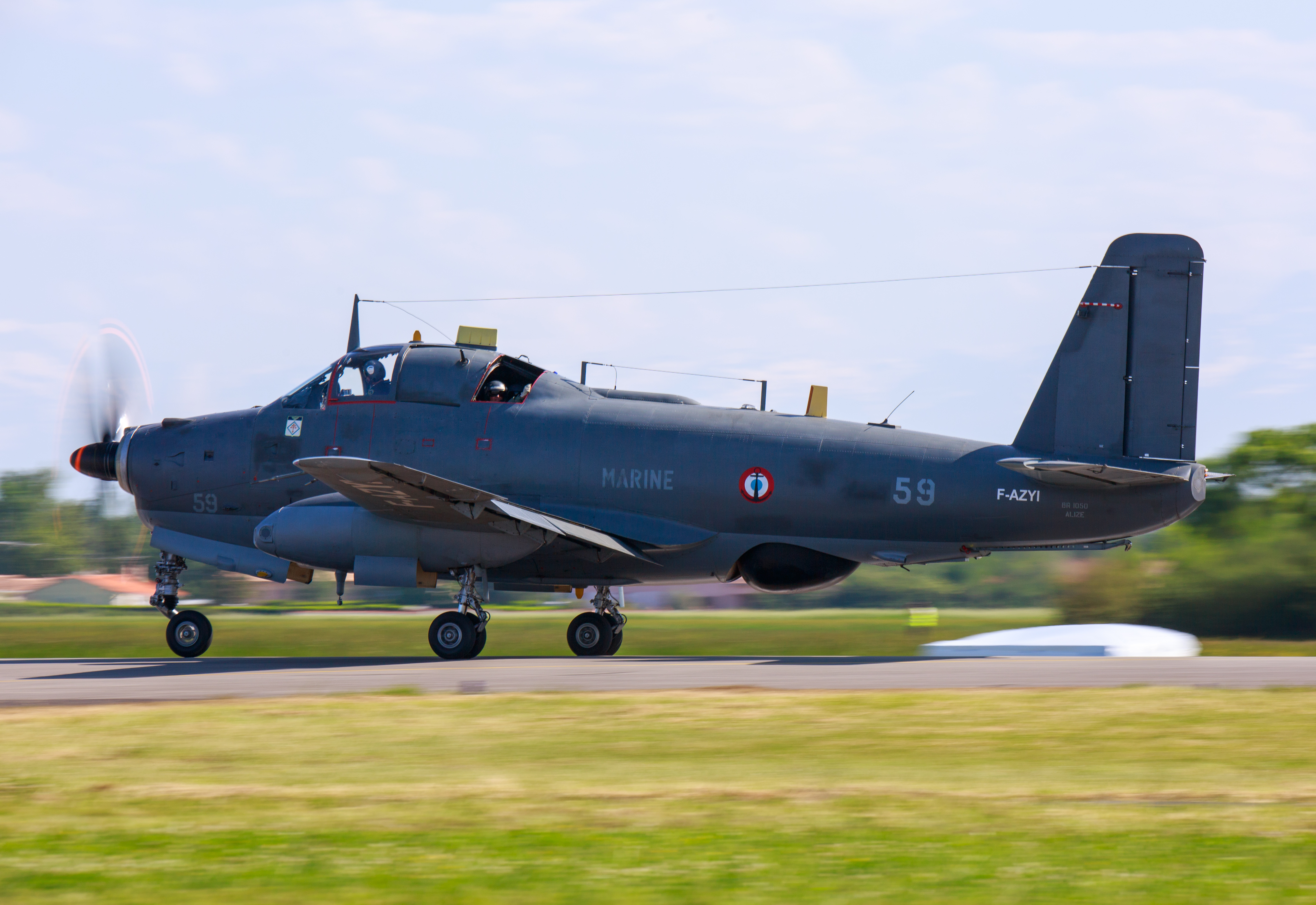 Alizé 59 taxiing at AirExpo. Last airworthy Breguet Br.1050 Alizé worldwide.